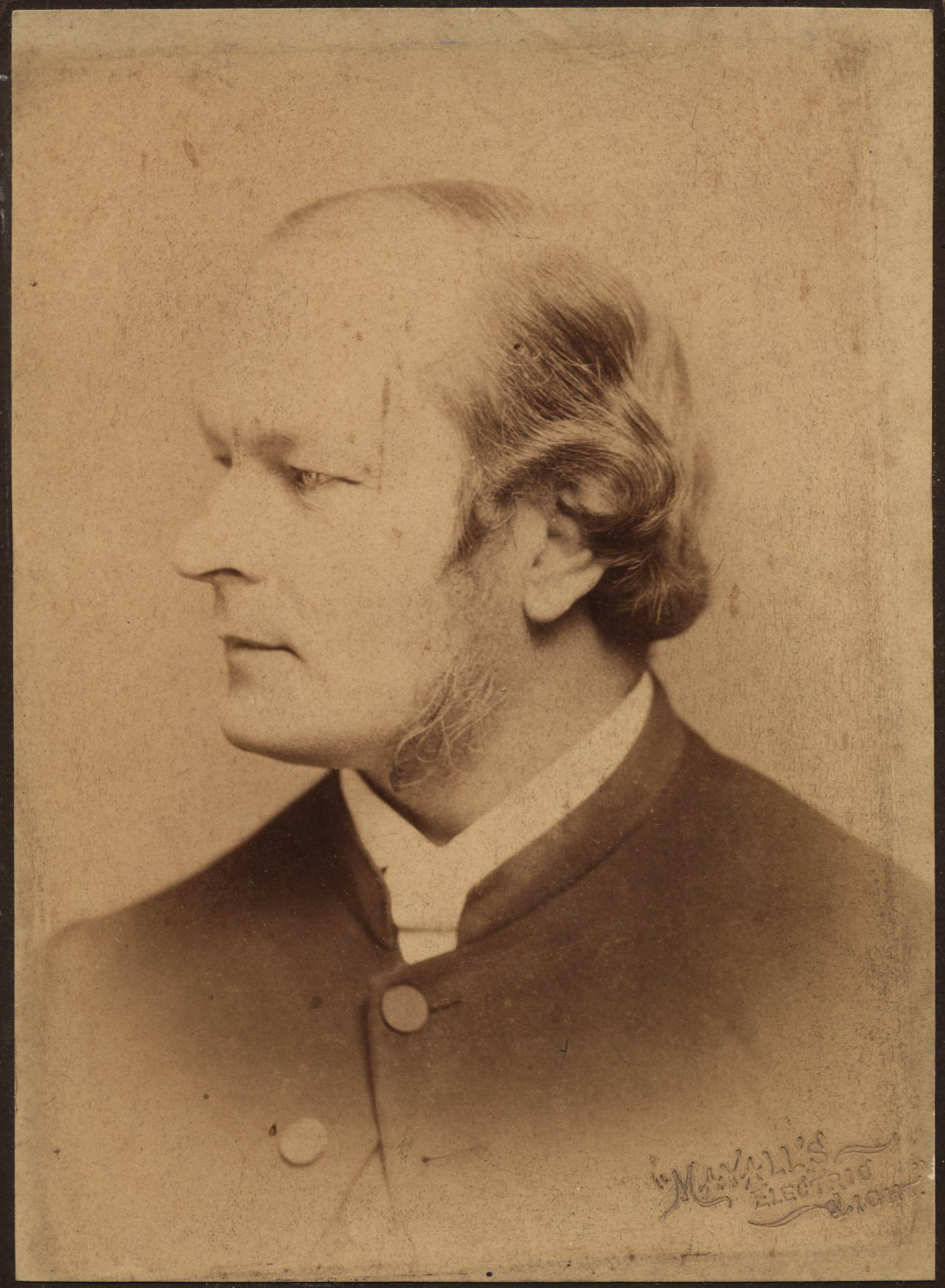 Carte de Visite # 497 taken by J G Mayall, 164 New Bond St, London taken in 1880s. Reverse has annotation" " Dr Farrar, Rector of St Margarets, Westminster, and Canon of Westminster Abbey" Carte de visite taken by J G Mayall, Art Photographic Studio, 164 New Bond St, London